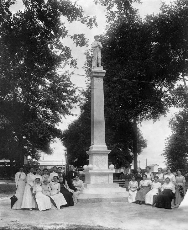 Members of the United Daughters of the Confederacy, seated around a Confederate monument in Munn Park - Lakeland, Florida